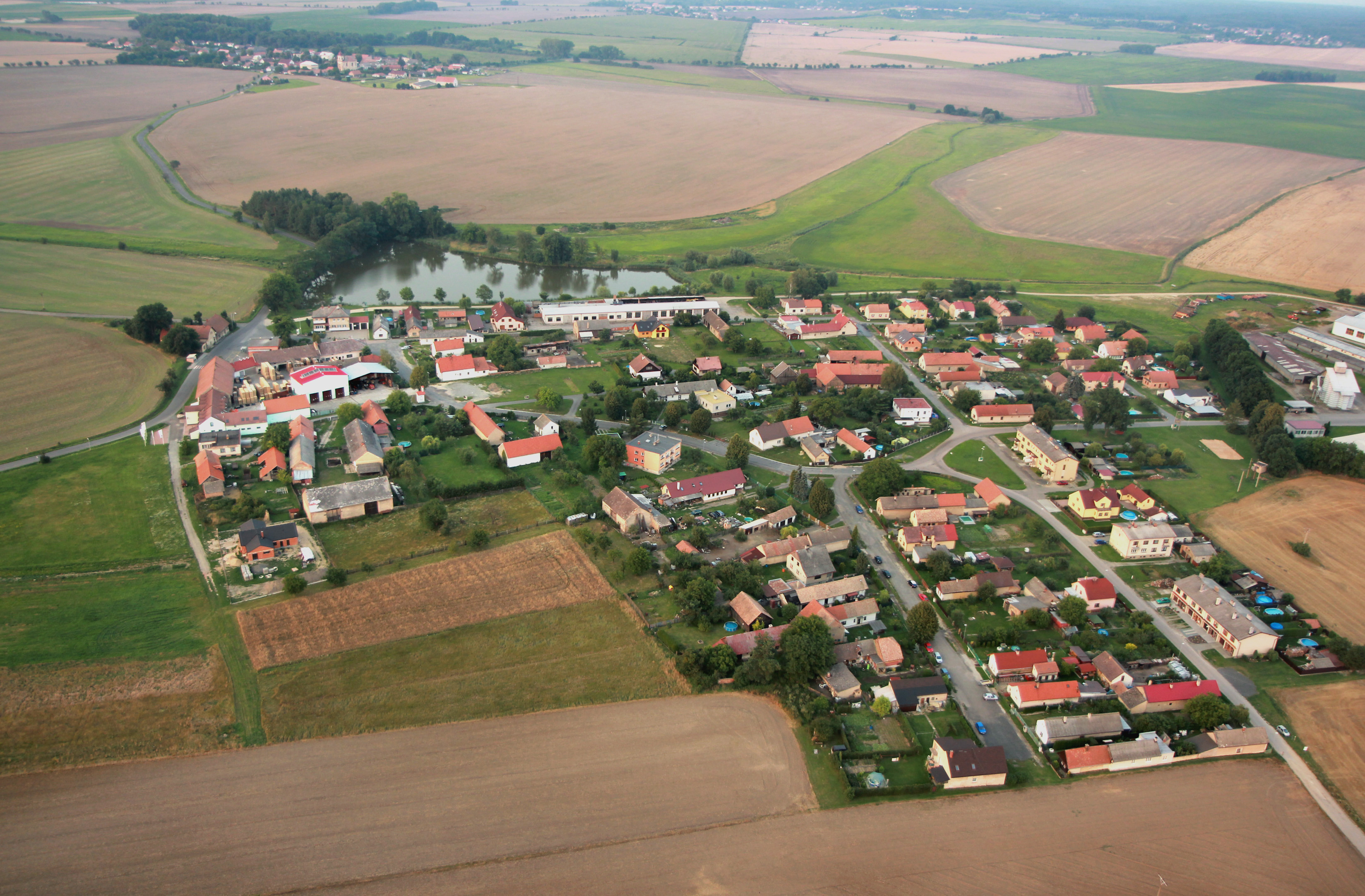 West view of Smilovice village, Czech Republic